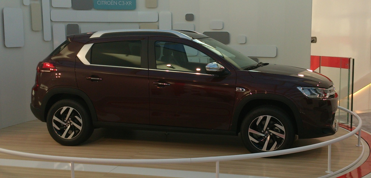 Citroën C3-XR photographed at C_42 Citroën Store on Champs-Élysées in Paris, France.